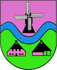 Coat of arms of the municipality Krummendiek in Schleswig-Holstein, Germany.